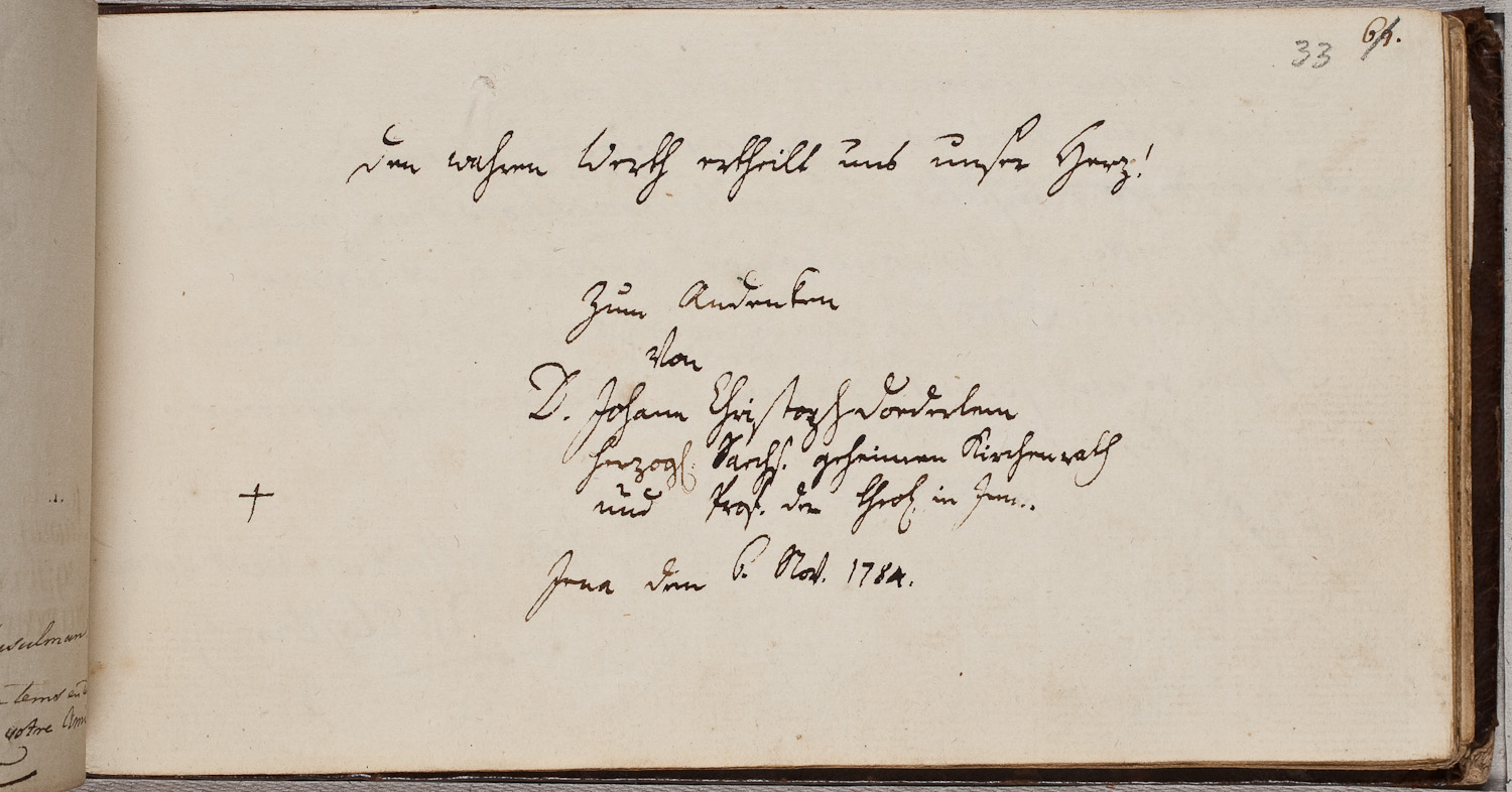 Inscription of Johann Christoph Döderlein in the Album amicorum of Carl Heinrich Wilhelm Anthing, Jena November 6, 1784